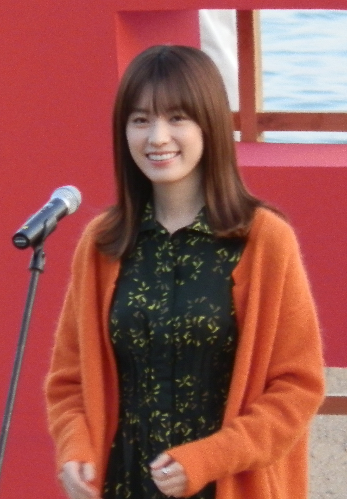 Han Hyo-joo at 2011 Busan International Film Festival